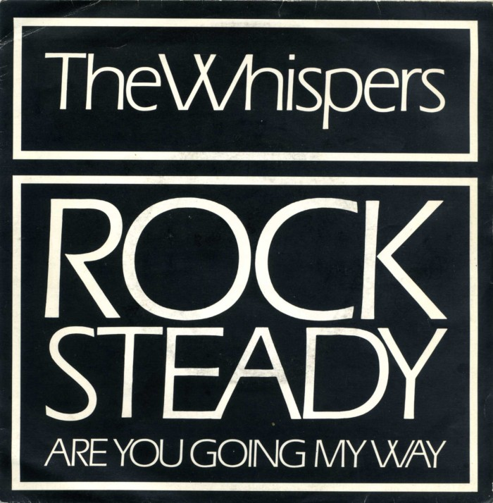 Front cover of the Belgian release of "Rock Steady" by The Whispers